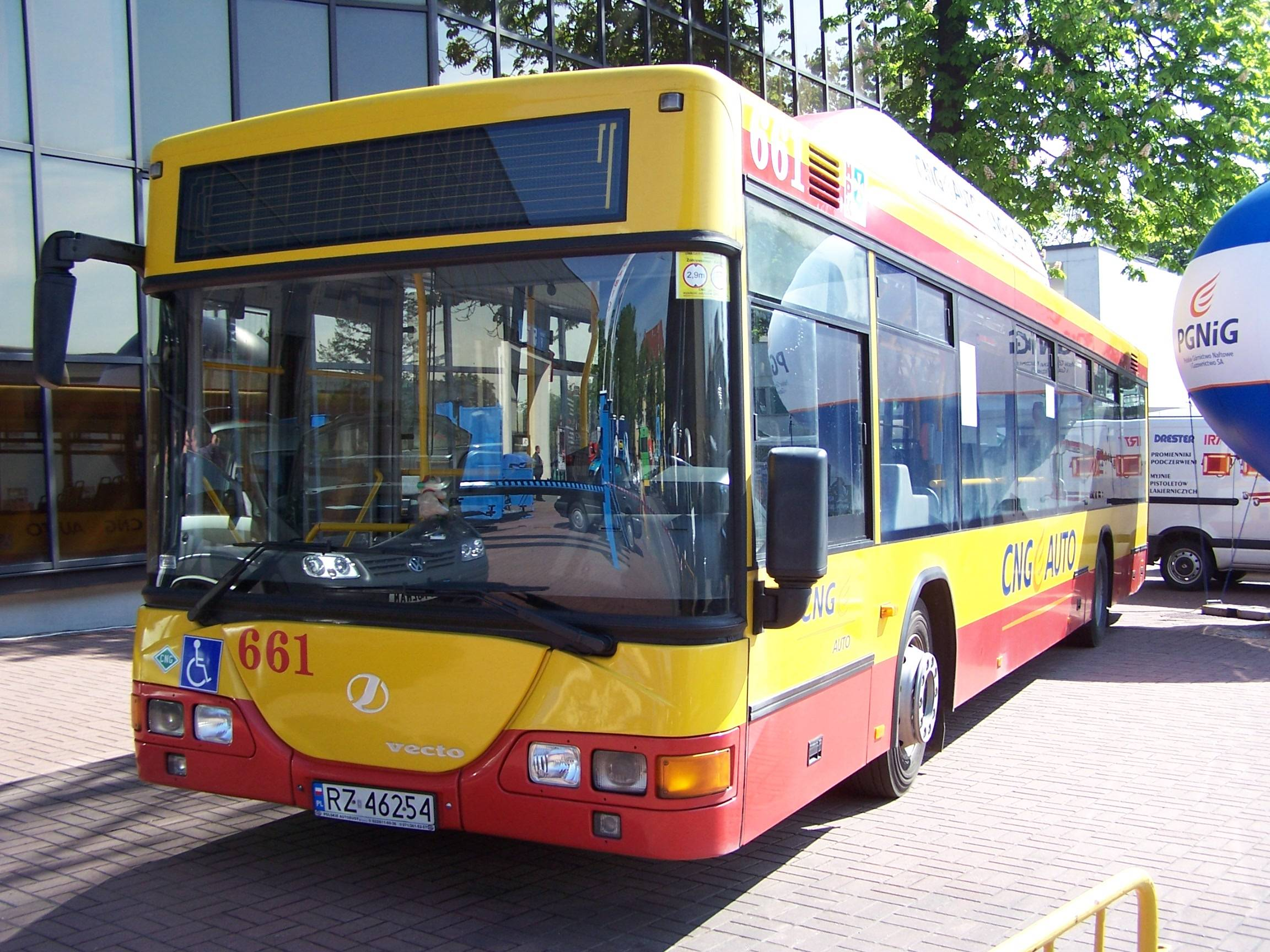 Jelcz M125M/4 Vecto CNG bus (#661, reg. RZ 46254) in Poznań, Poland. Built 2004, MPK Rzeszów operator.